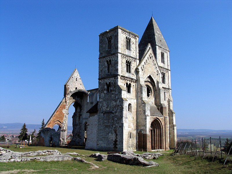 Ruin of the romanic church of Zsámbék